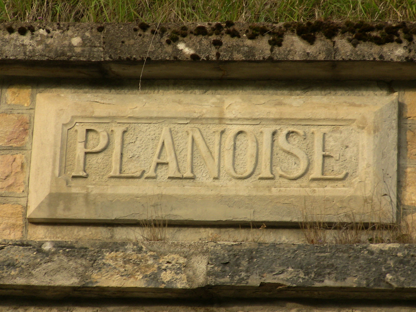 Details of the entry of the Fort of Planoise, located in Besançon (Doubs)